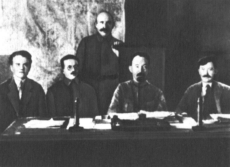 Soviet Cheka 1921, Yakov Peters, Józef Unszlicht, Абрам Яковлевич Беленький, Felix Dzerzhinsky, Vyacheslav Menzhinsky